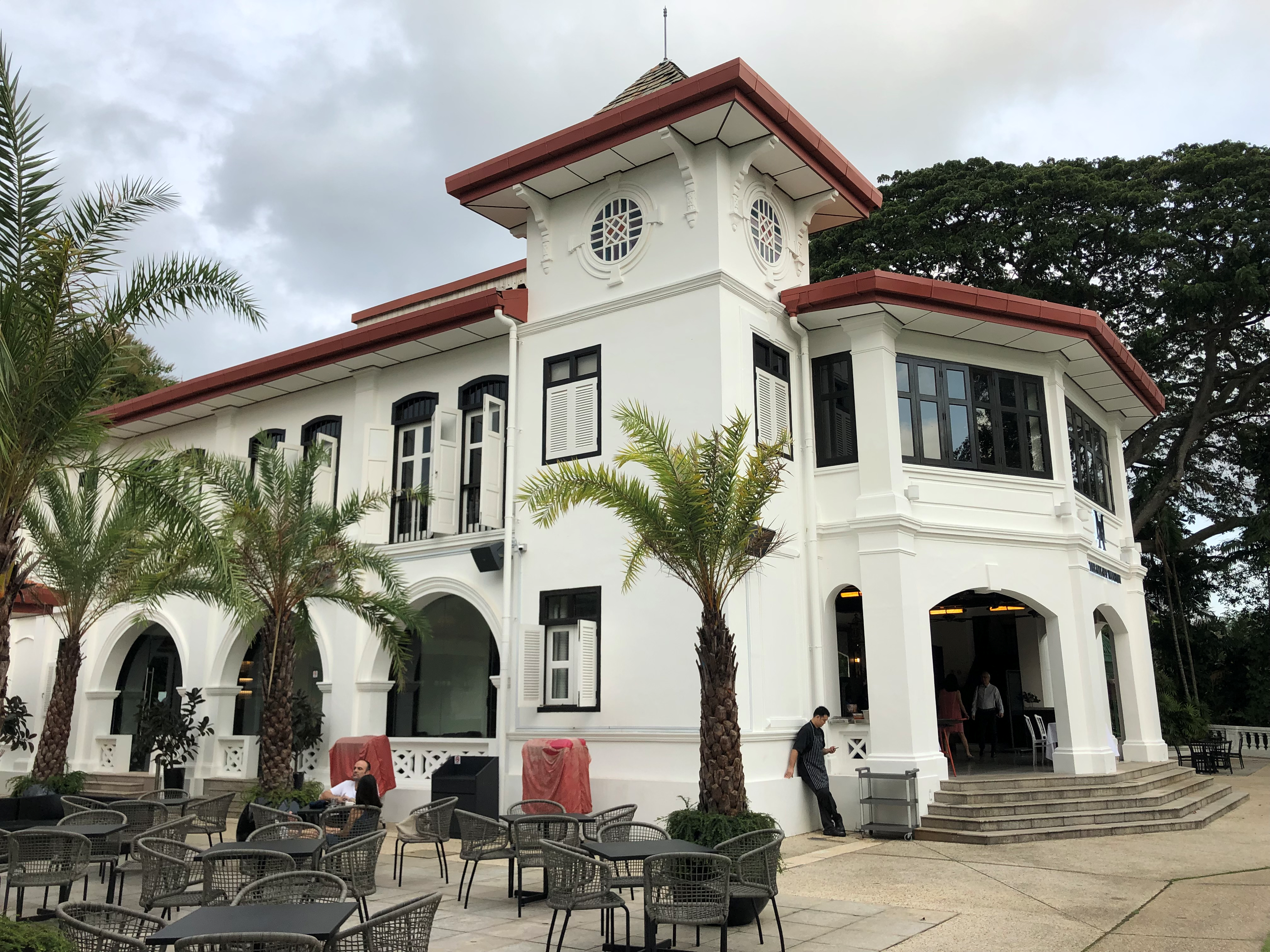 The Alkaff Mansion in Telok Blangah Hill Park, Singapore.